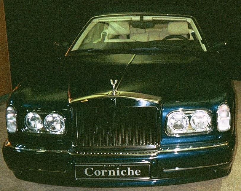 Rolls-Royce Corniche 2000